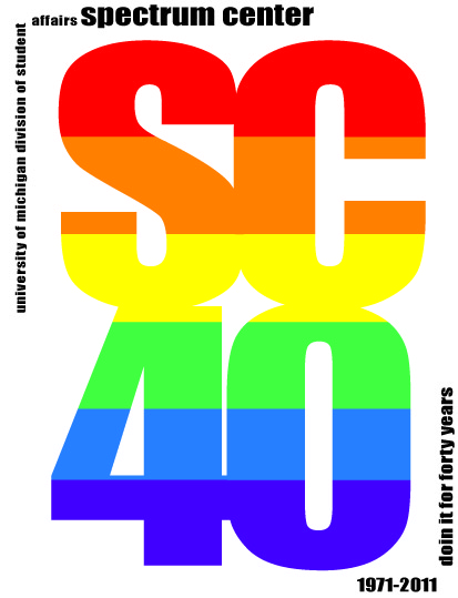 UM Spectrum Center 40th Anniversary Logo